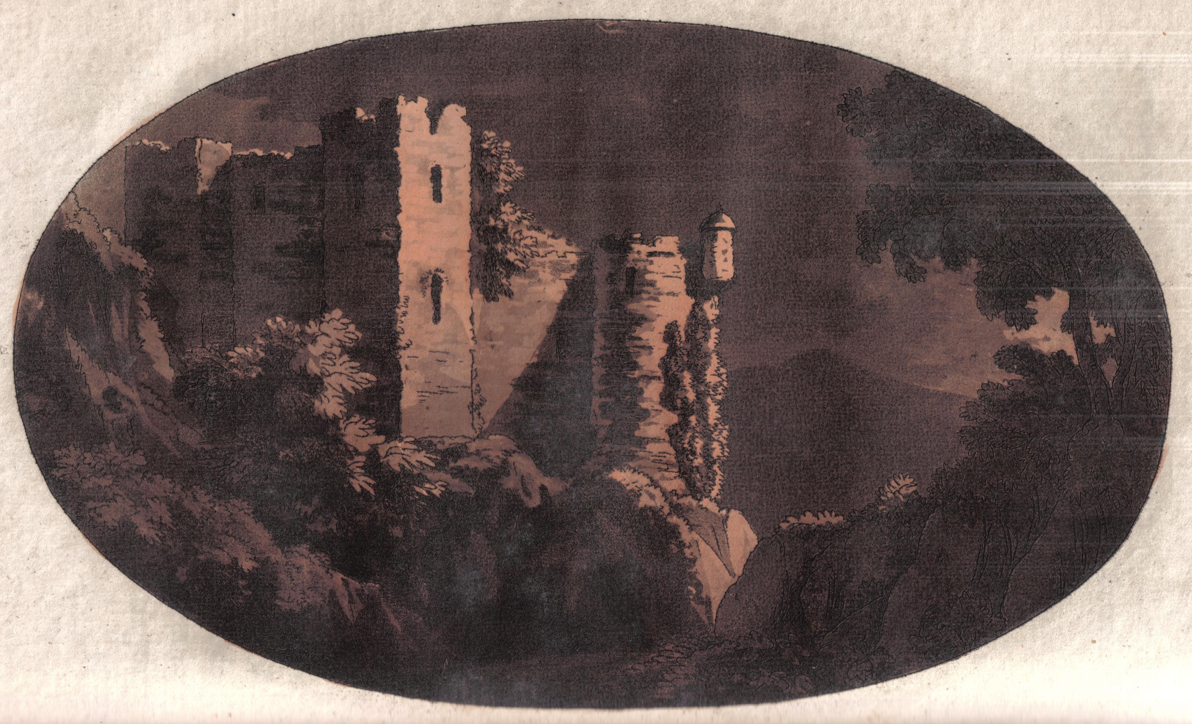 Penrith Castle, Cumbria, England.